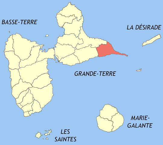 Location of Saint-François within Guadeloupe